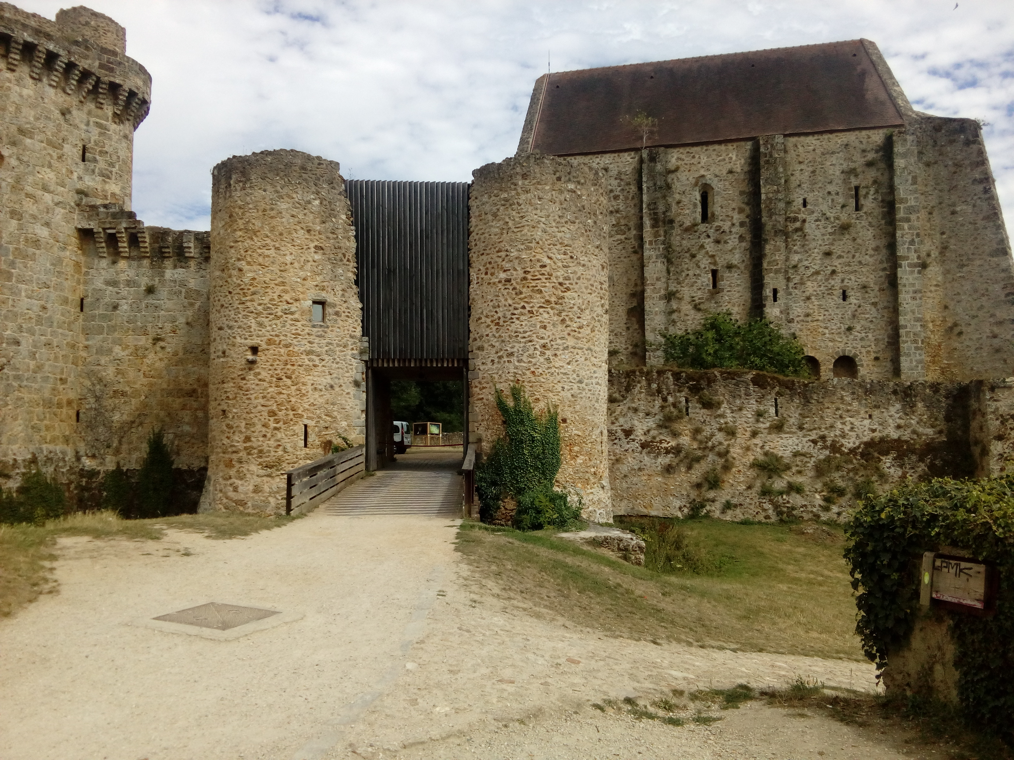 The main door and the keep Château de la Madeleine